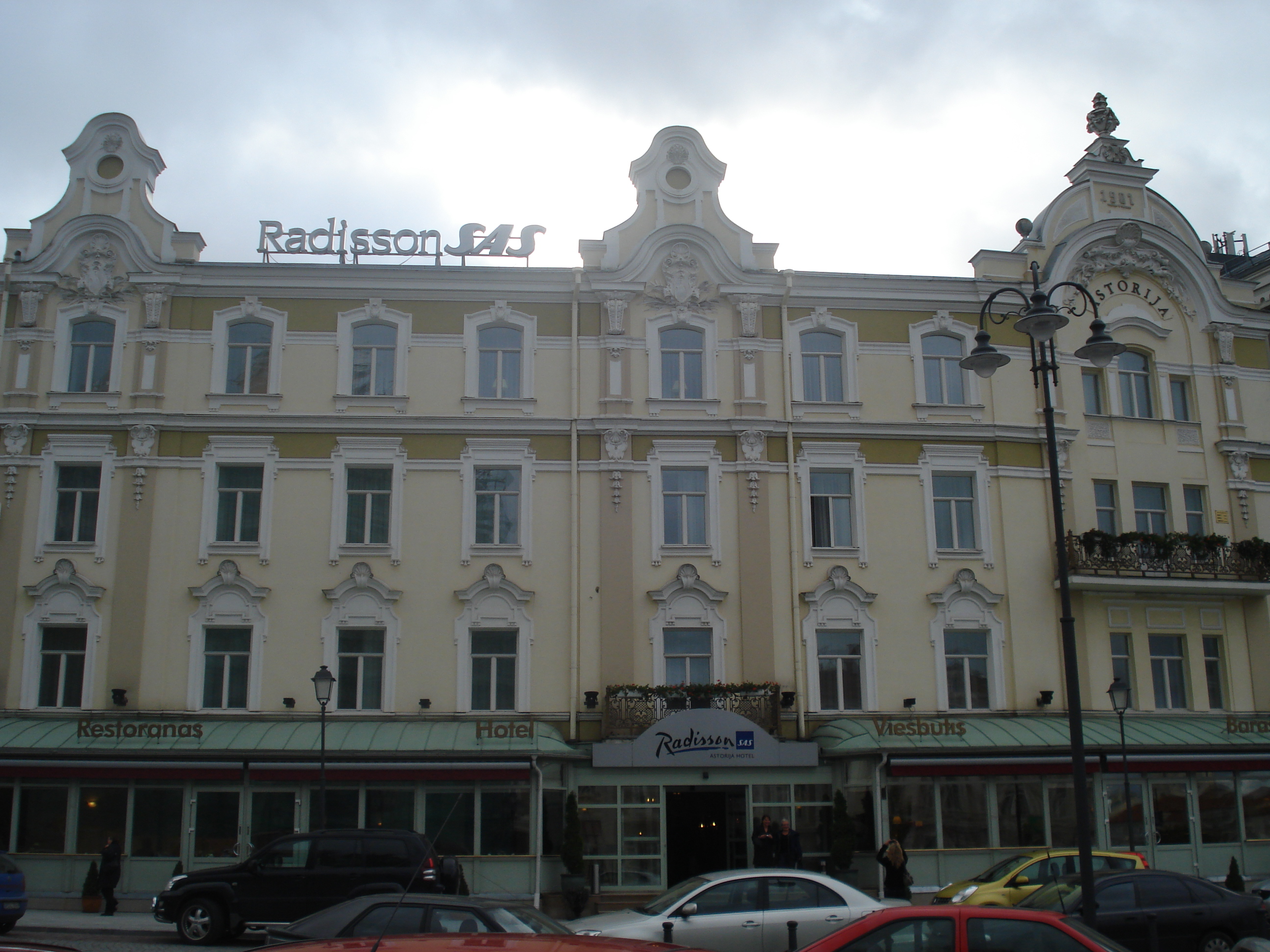 Hotel "Italy" («Италия») build by August Klein in 1901, now Radisson SAS Astorija. Didžioji g. 35/2